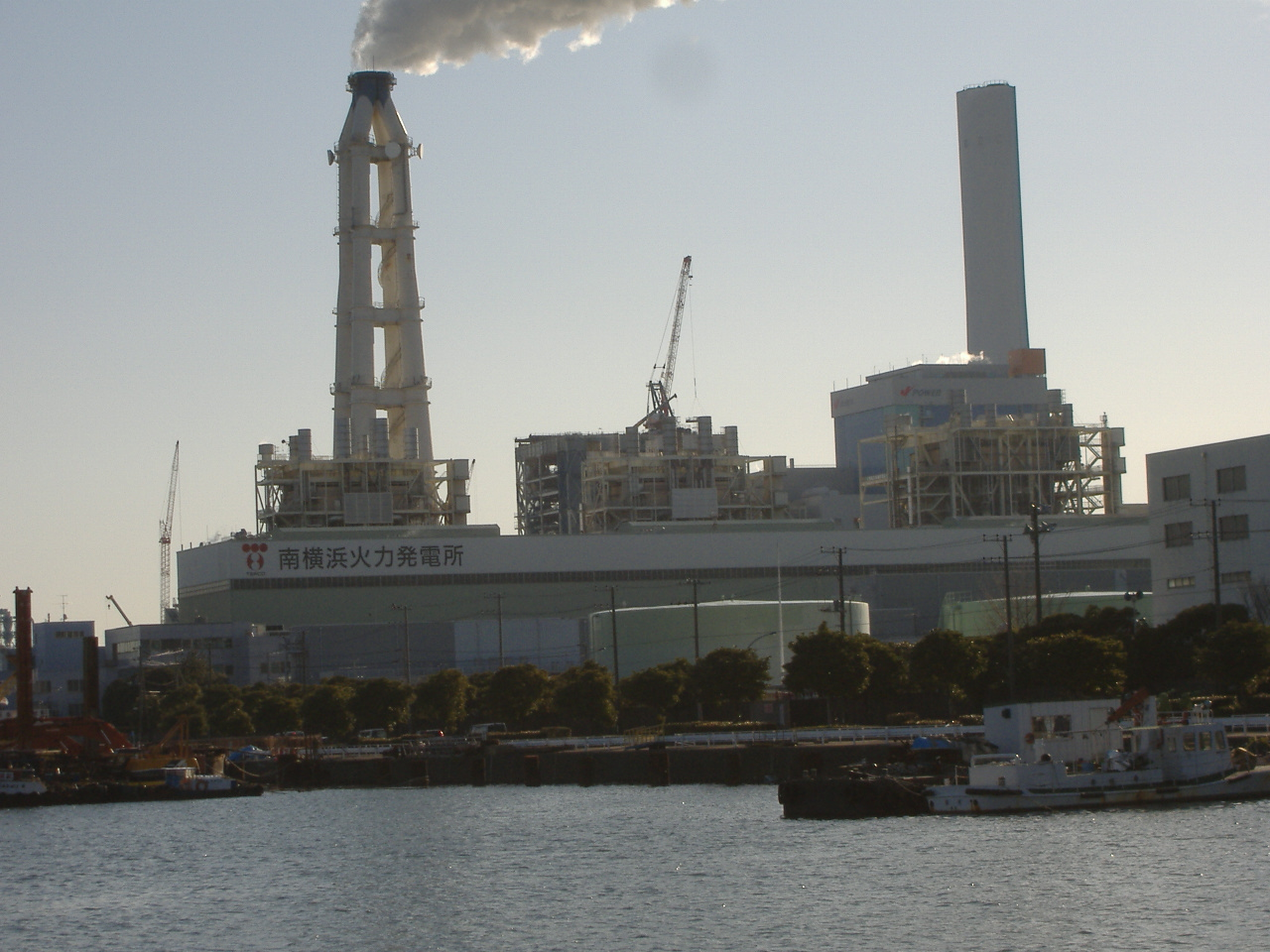 South-Yokohama Powerplant (Yokohama,Japan)